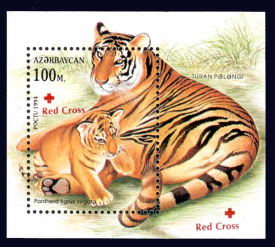 Stamp of Azerbaijan